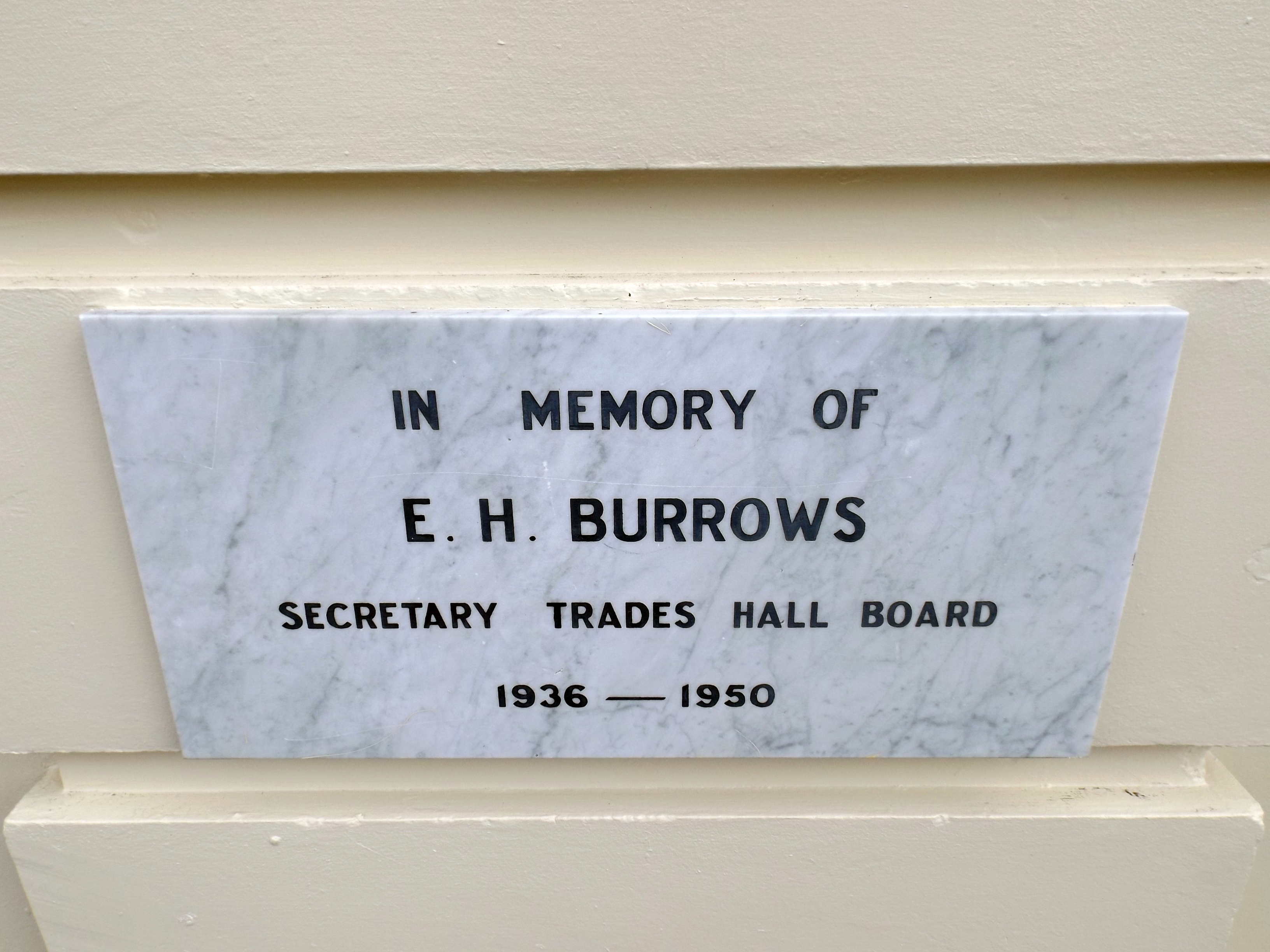 Photo of memorial plaque at the Toowoomba Trades Hall in Toowoomba City, Queensland, Australia.